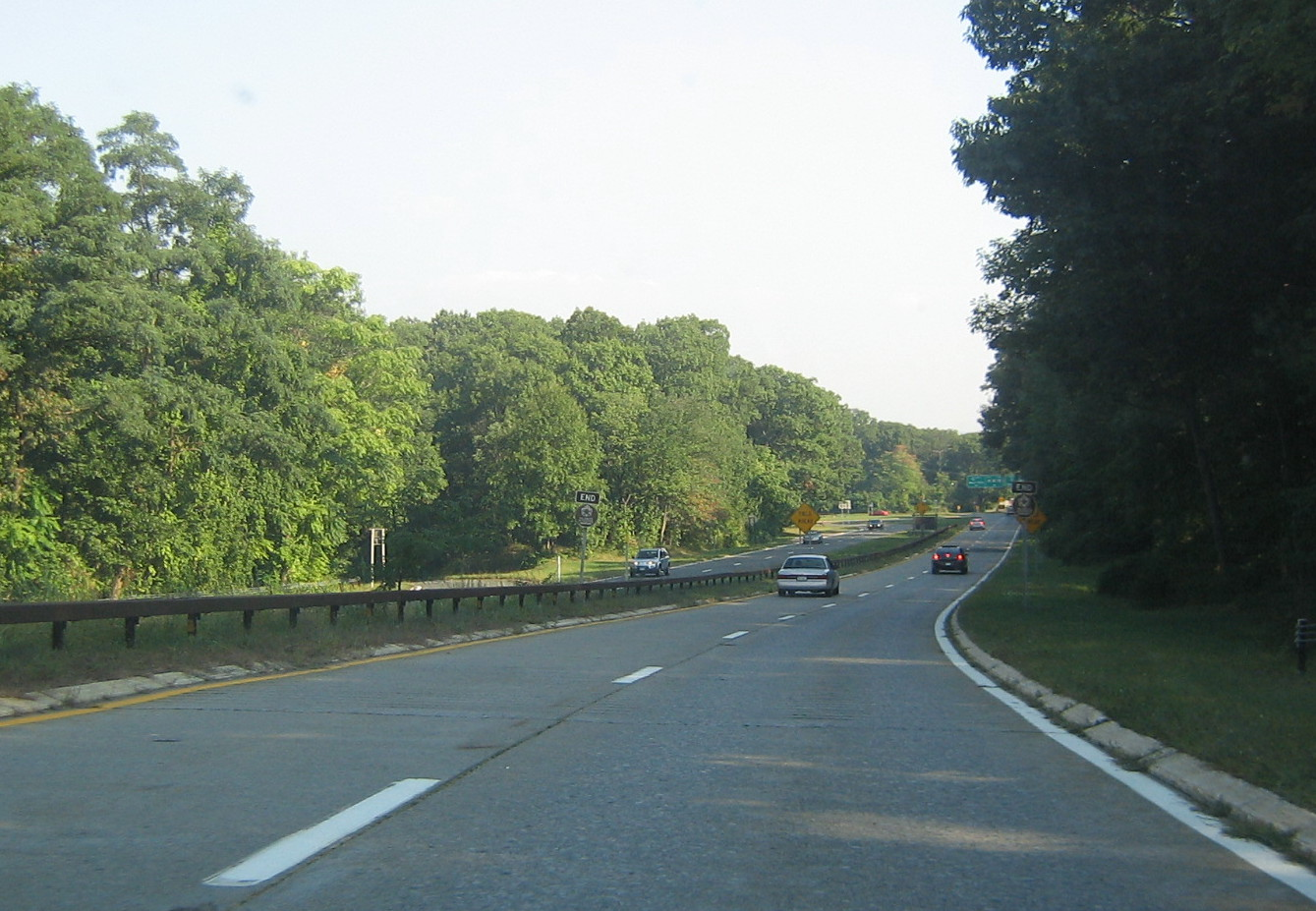 The Palisades Interstate Parkway's northern terminus in Fort Montgomery, New York.